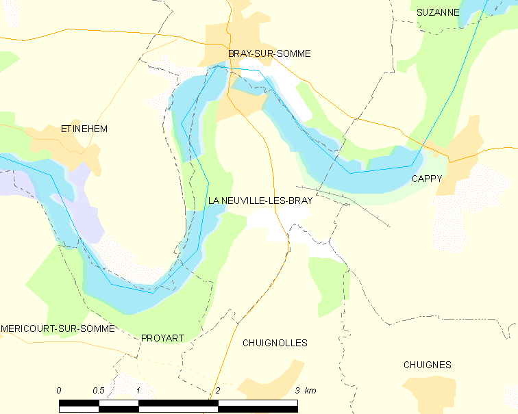 Map of French municipality La Neuville-lès-Bray